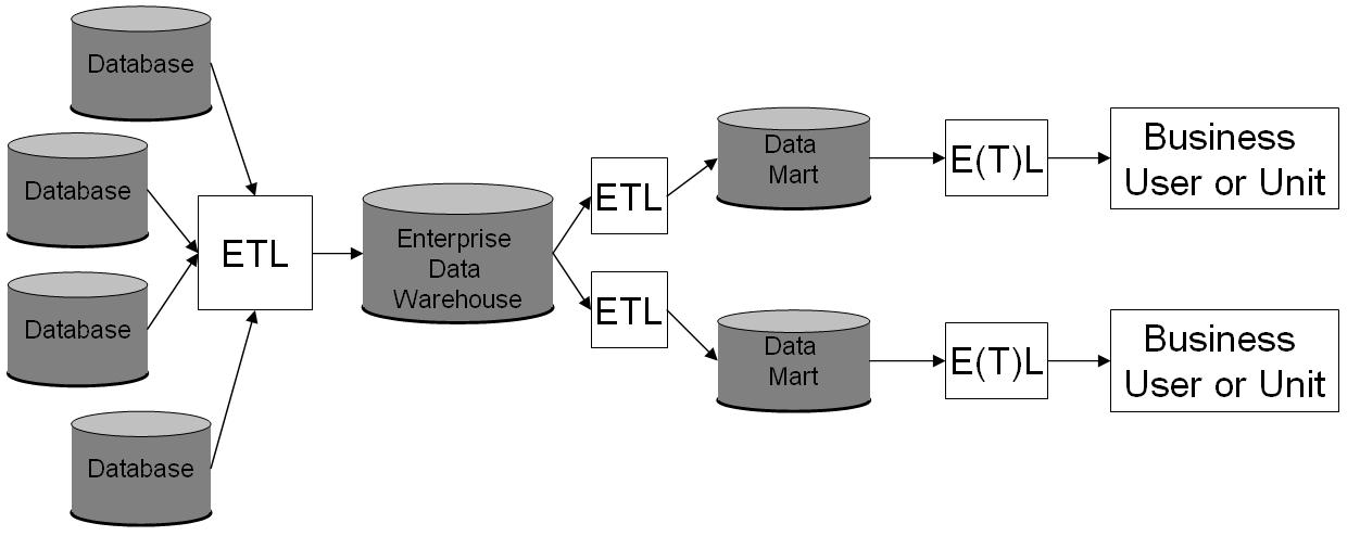 Data Warehouse Feeding Data Marts Licensing en:/Images